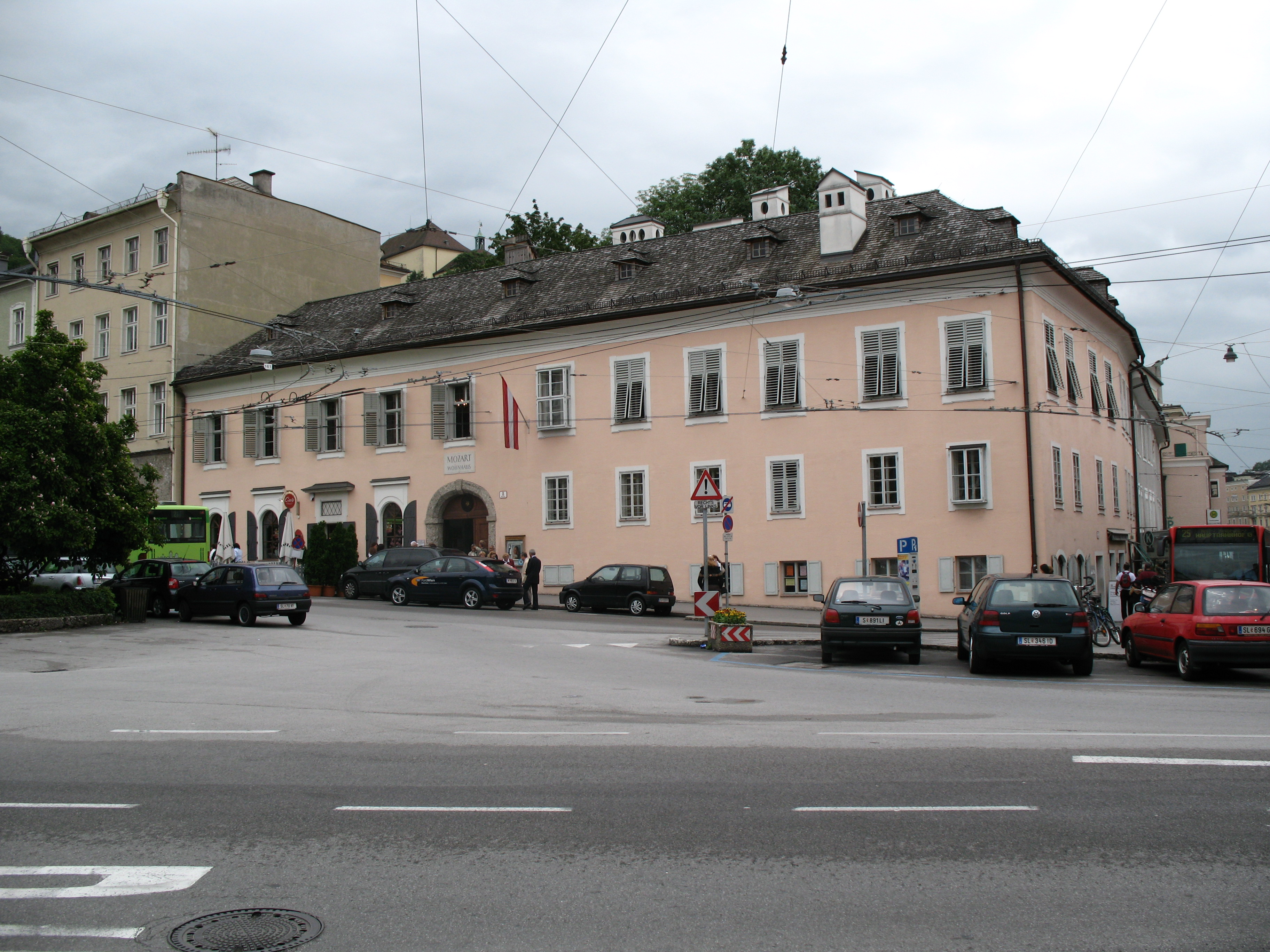 Residence of the Mozart family in Salzburg, Austria. The original building has been destroyed in World War II. The house which can be found here today is a reconstruction according to original plans opened in 1996.